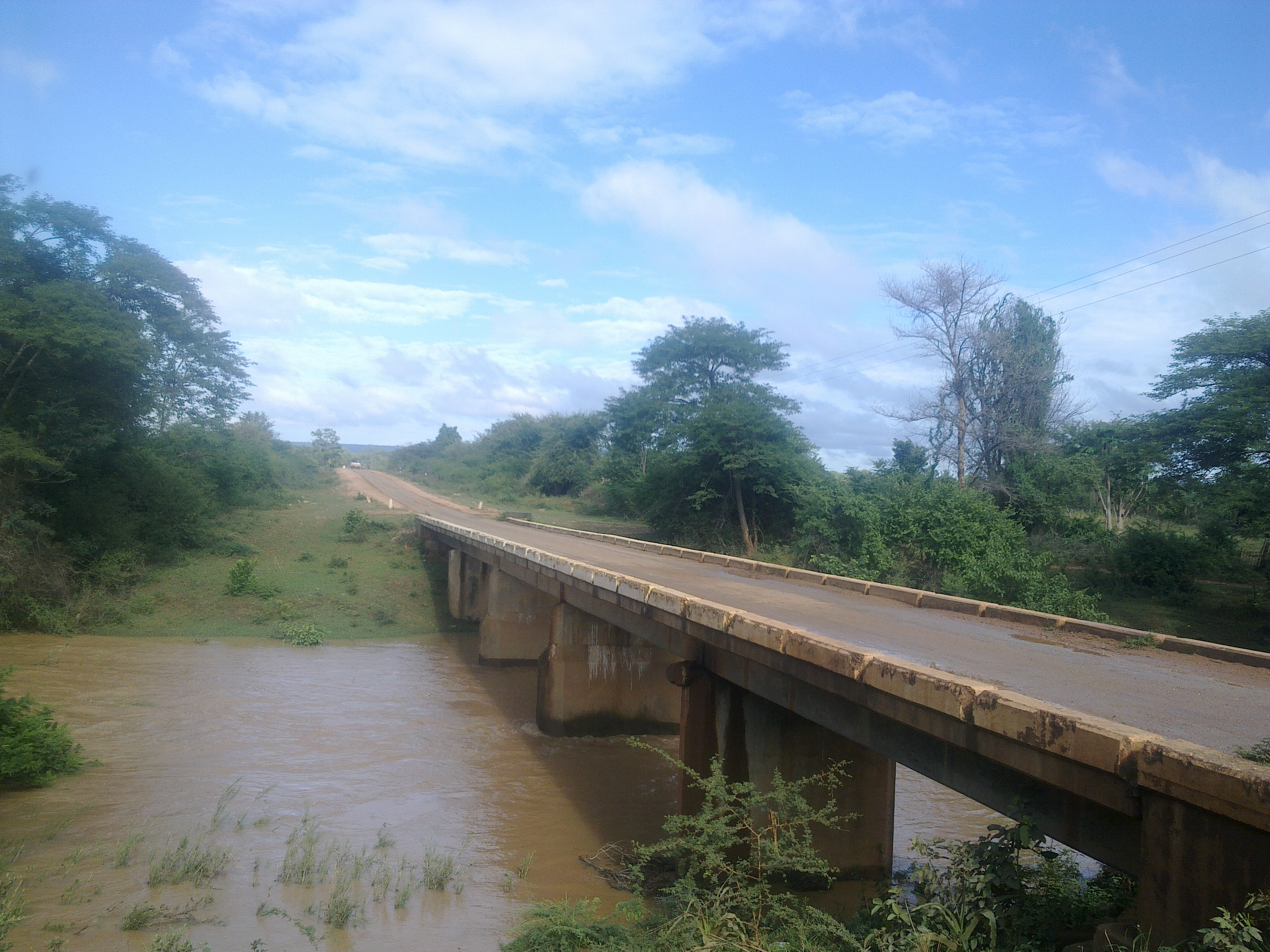 Ngondoma Bridge Empress Road